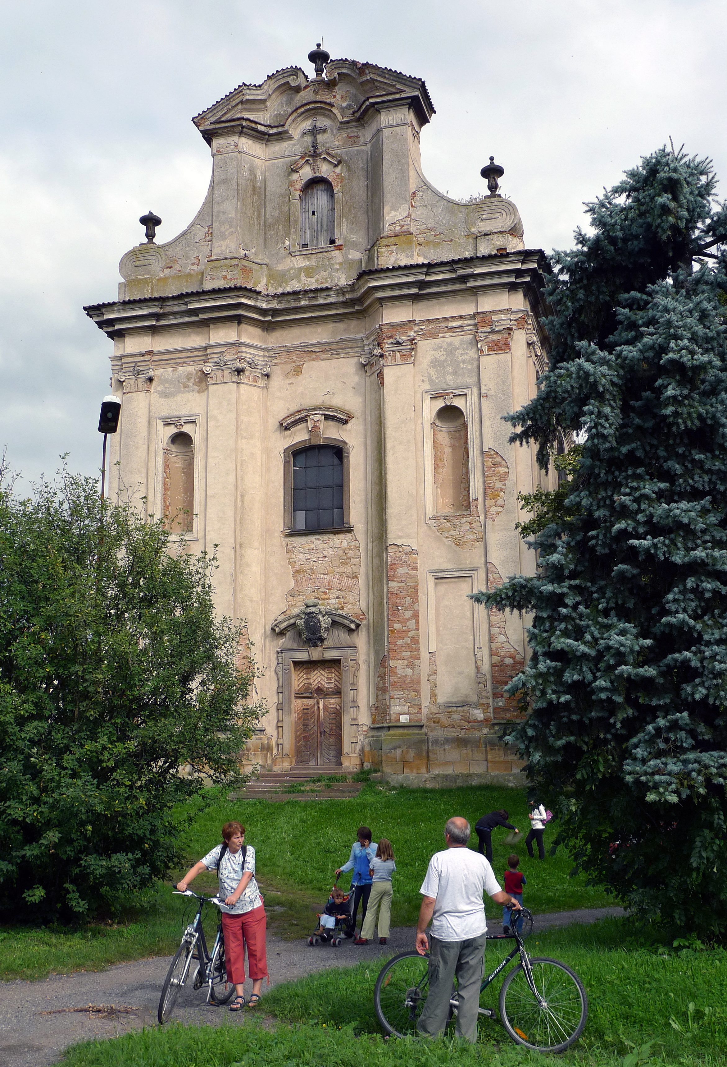 Saint Gall church in Štolmíř, Czech Republic.